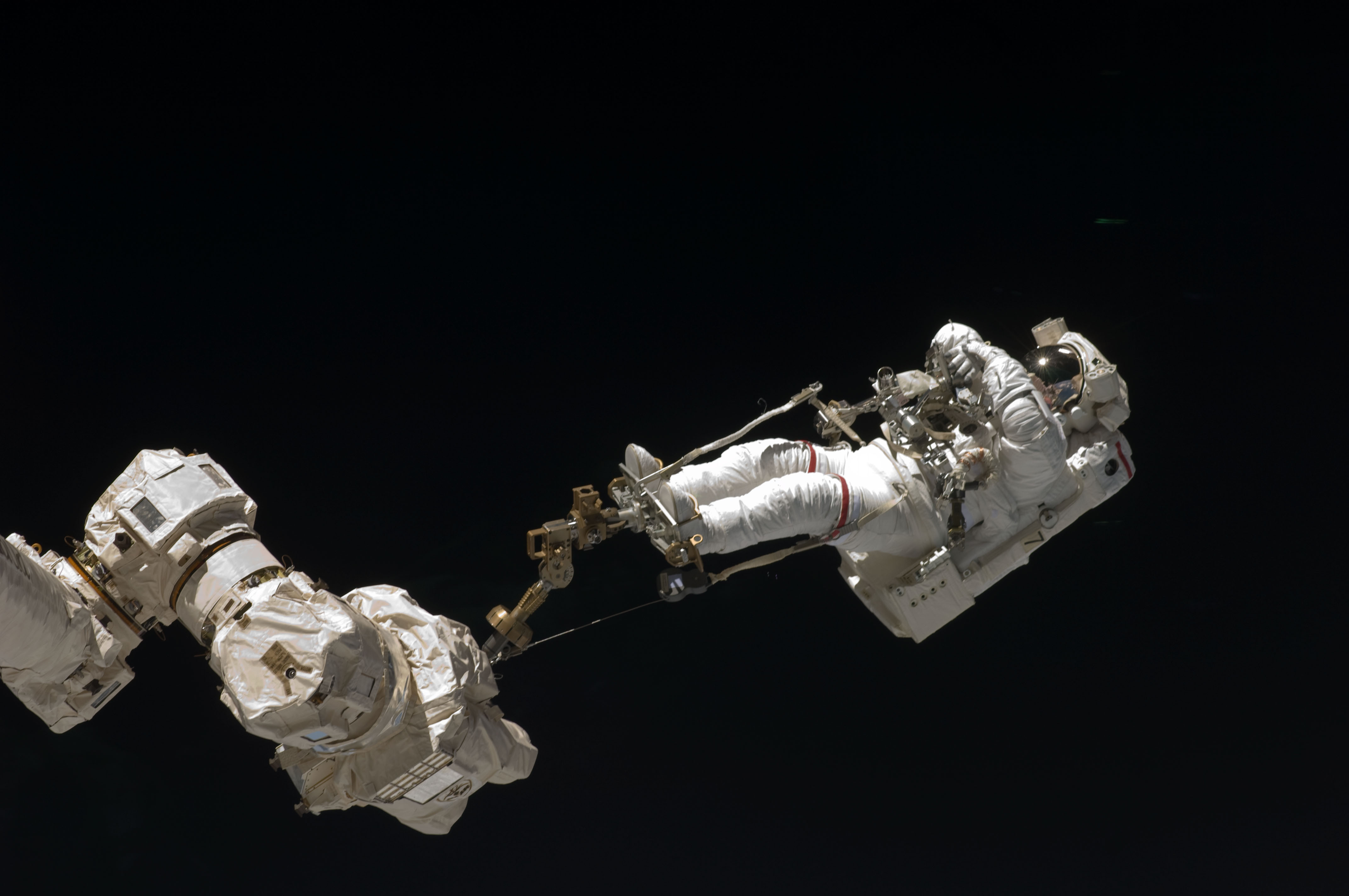 This is one of a series of digital still images showing astronaut Dave Wolf performing his second spacewalk and the Endeavour's second also of the scheduled five overall in a little over a week's time to continue work on the International Space Station. Astronauts Wolf and Tom Marshburn (out of frame), both mission specialists, successfully transferred a spare KU-band antenna to long-term storage on the space station, along with a backup coolant system pump module and a spare drive motor for the station's robot arm transporter. Installation of a television camera on the Japanese Exposed Facility experiment platform was deferred to a later spacewalk.